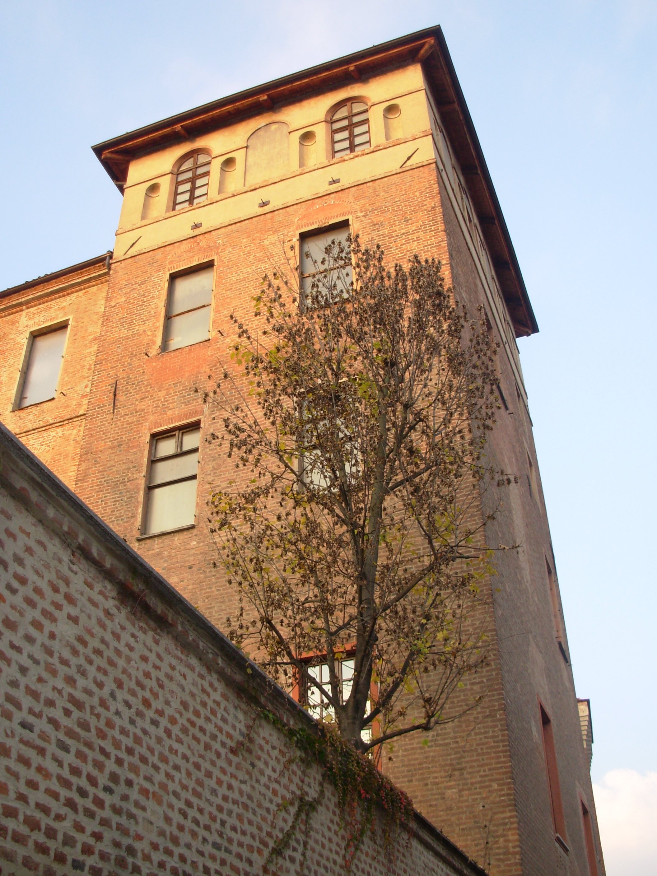 A tower of Della Rovere's Castle